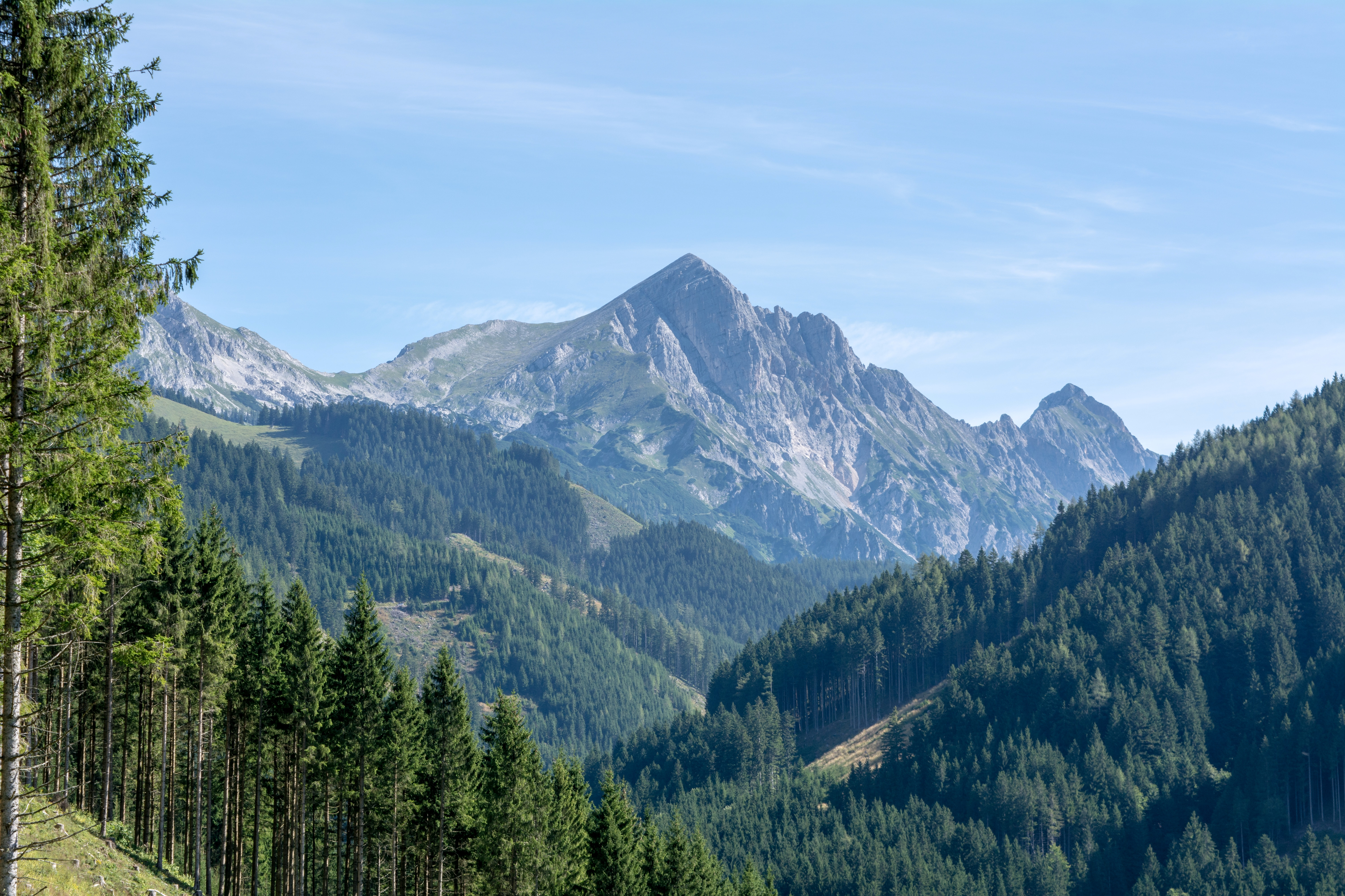 Scheiblingstein (2197 m) and Kreuzmauer (2091 m) are summits of the Haller Mauern at the border between Upper Austria and Styria. This area is a protected landscape of Styria (LS16- Ennstaler und Eisenerzer Alpen).